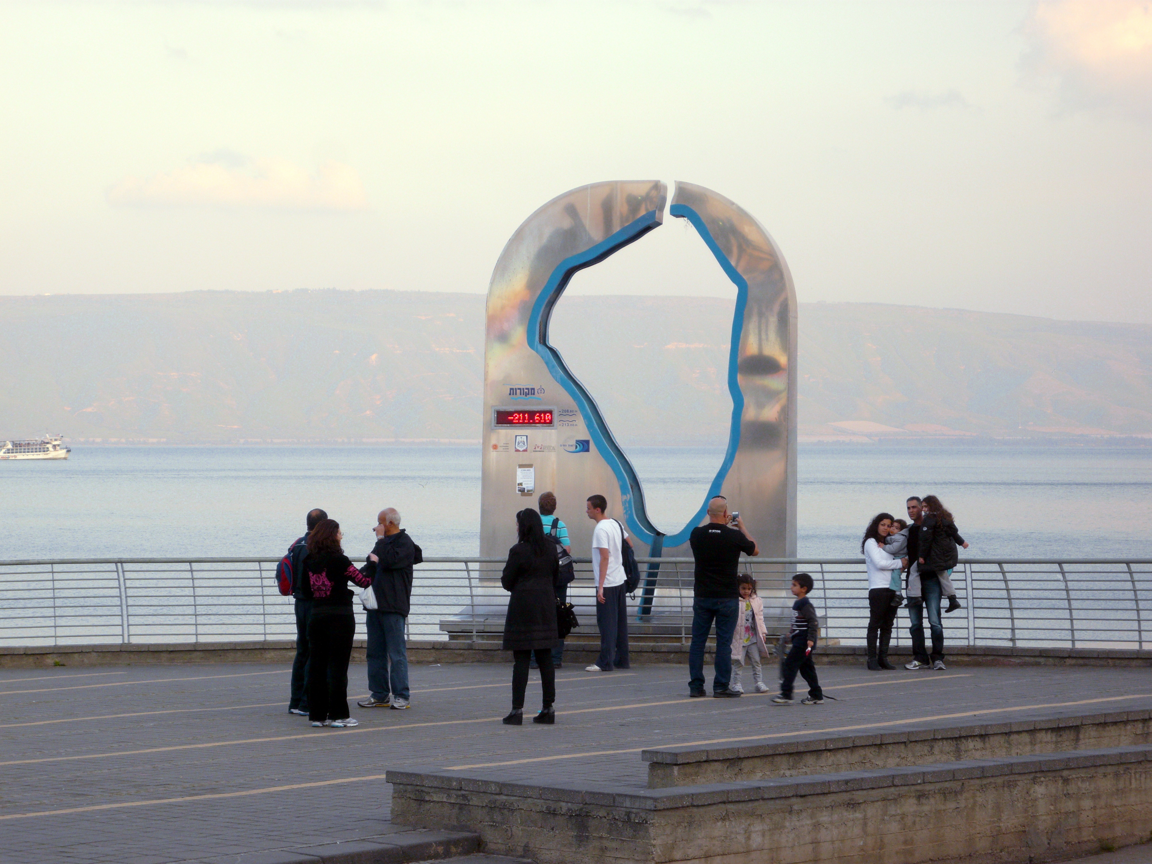 Water level indication at lake Genezareth